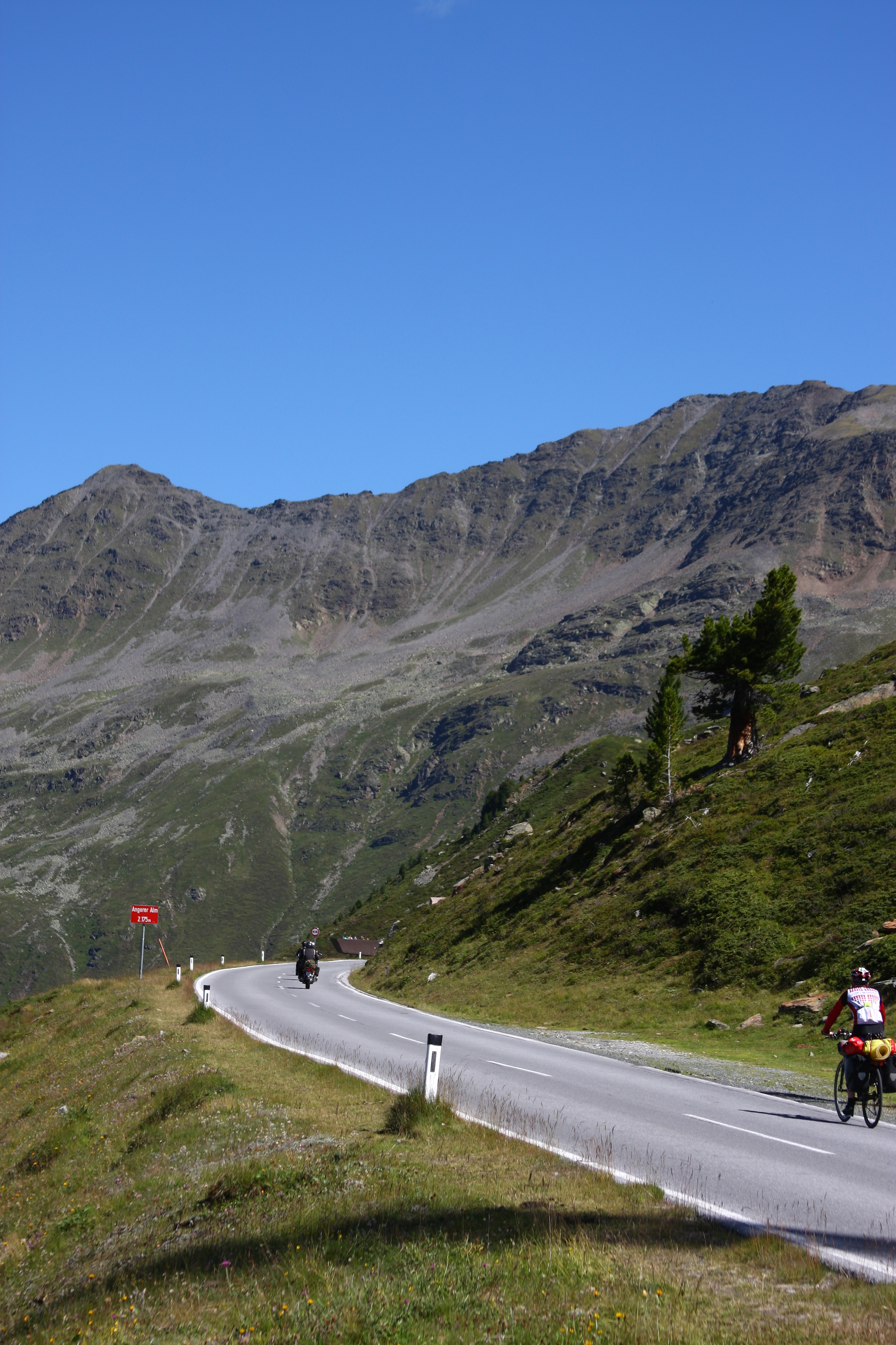 Timmelsjoch